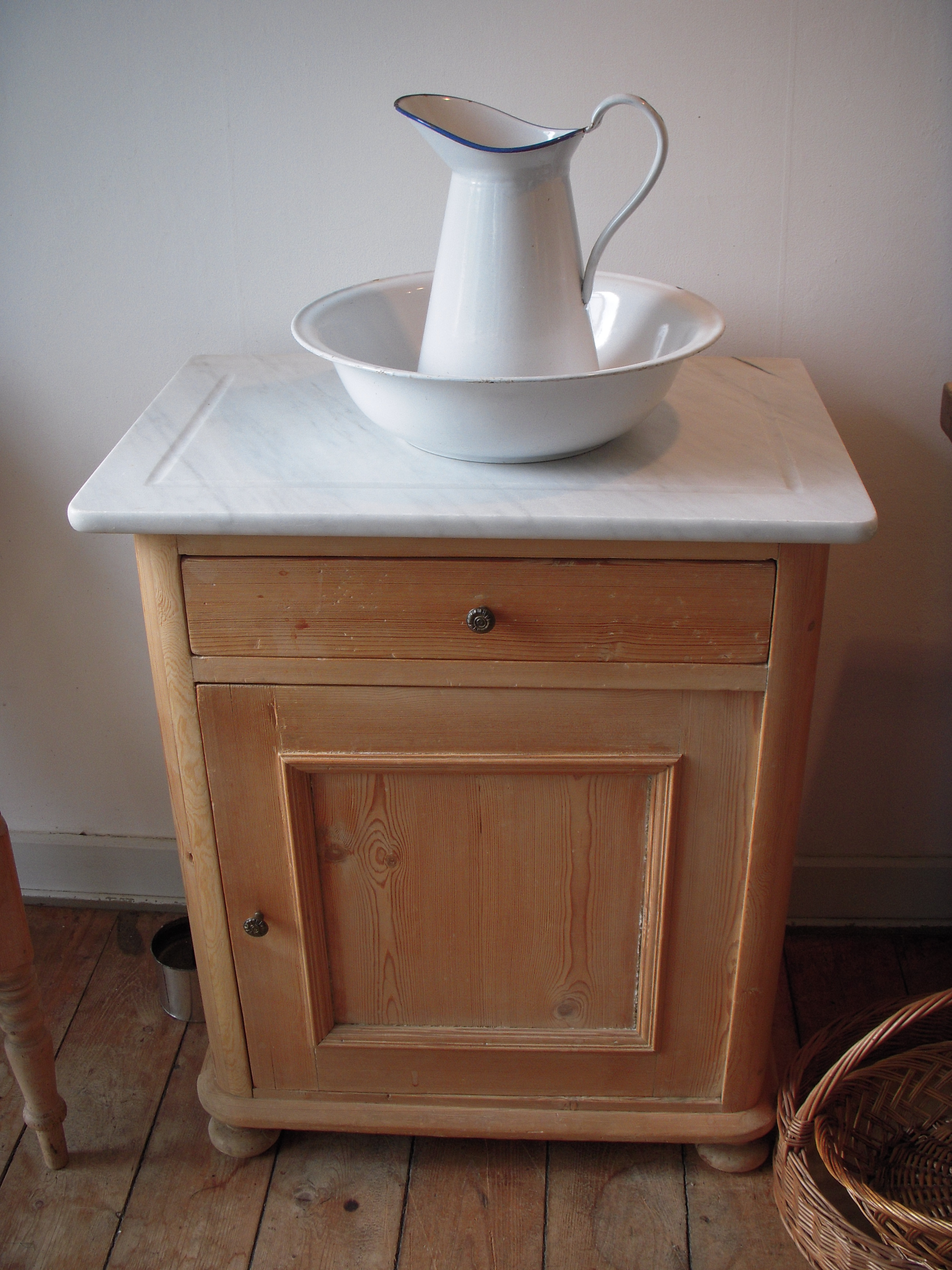 Washstand (from Denmark)